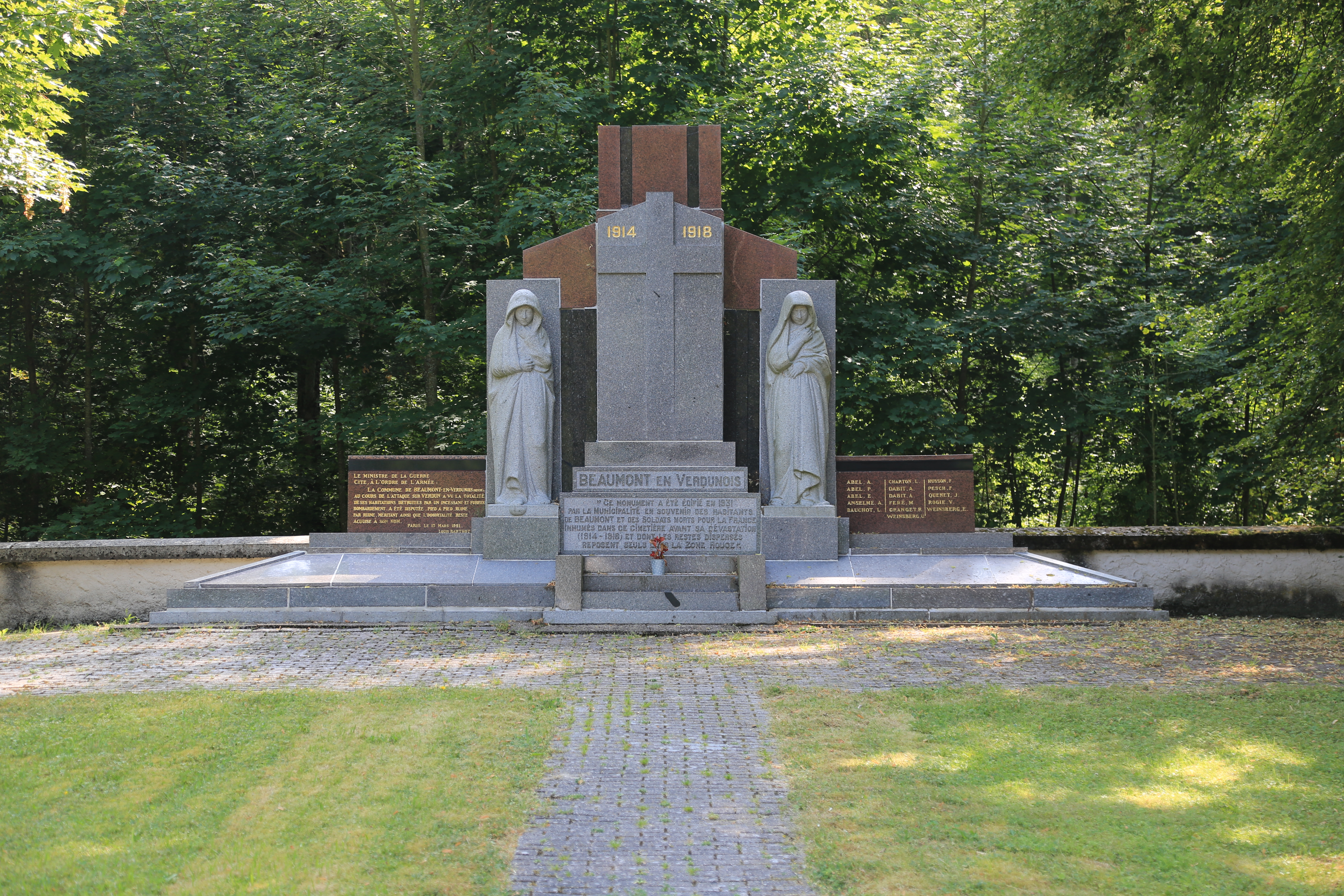 Memorial in the village Beaumont-en-Verdunois that was destroyed in the first world war